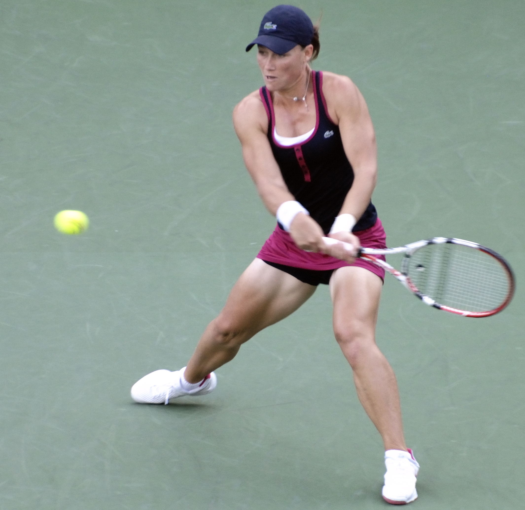 Samantha Stosur at the 2009 US Open